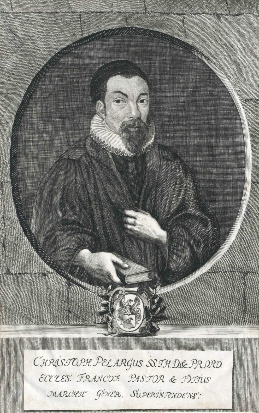 Christoph Pelargus (1565–1633)